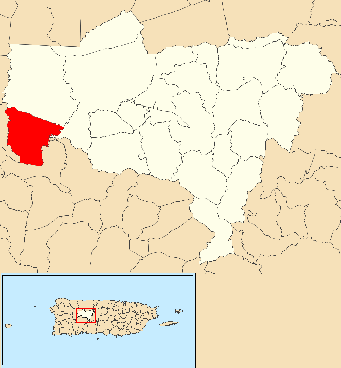 Santa Isabel, Utuado, Puerto Rico locator map scale is 102,000